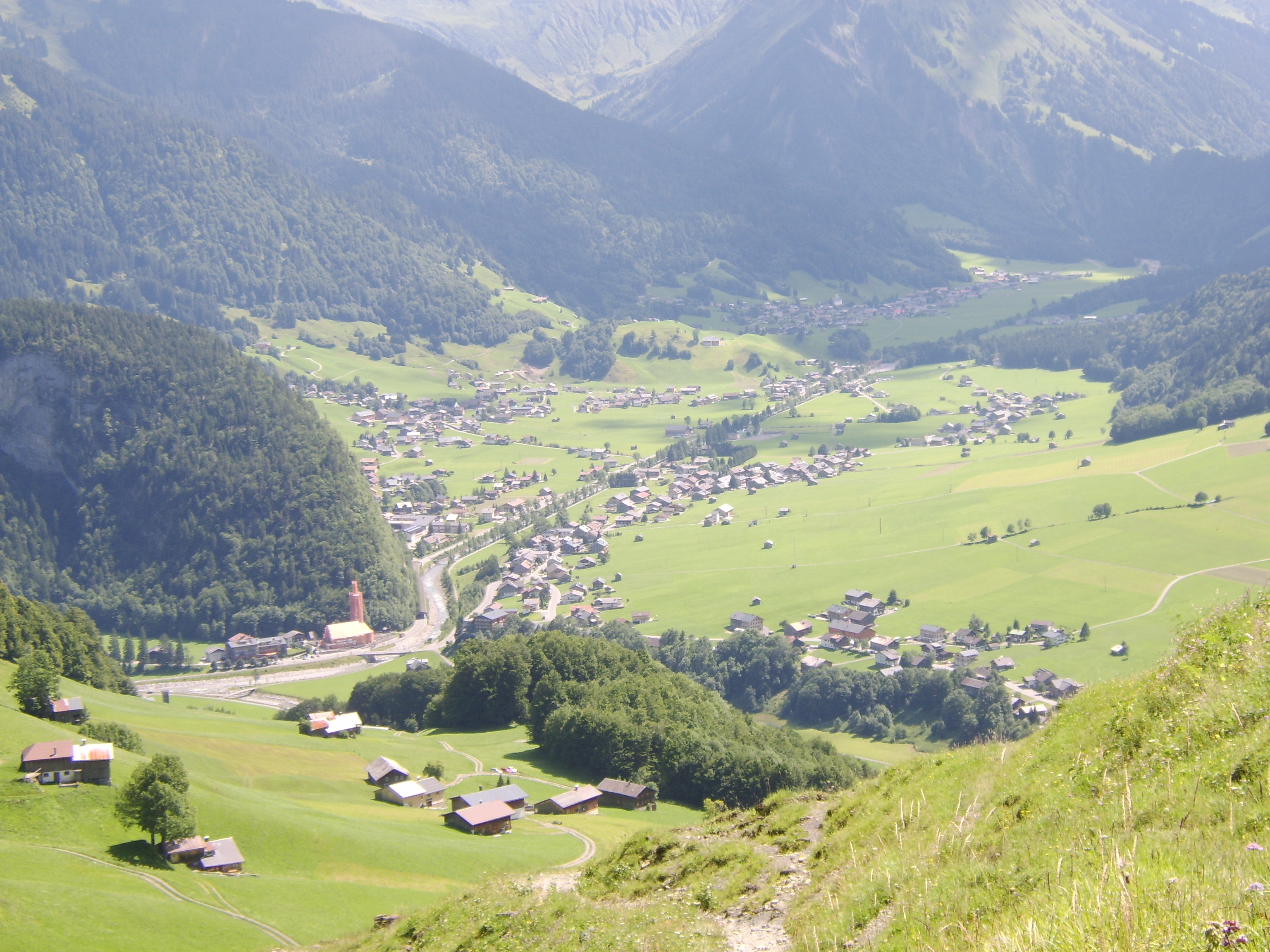 au vorarlberg